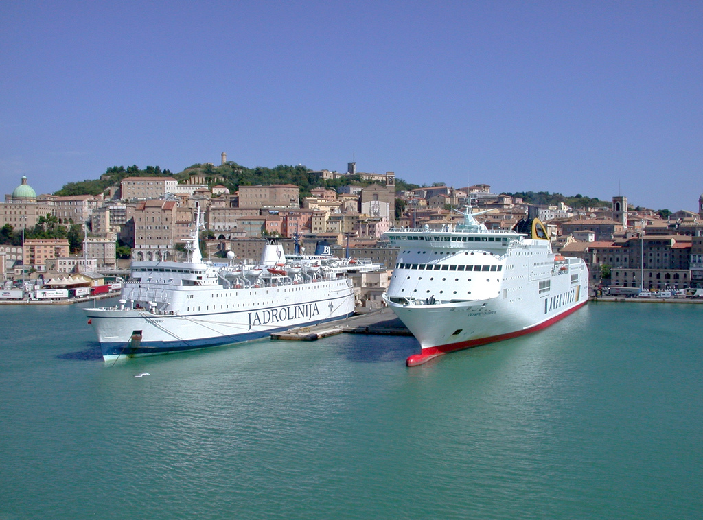 Port of Ancona: ANEK Lines ferry Olympic Champion, SYWD, IMO: 9216028, ext to Jadrolinija Lines ferry Dubrovnik, 9AEQ, IMO 7615048.